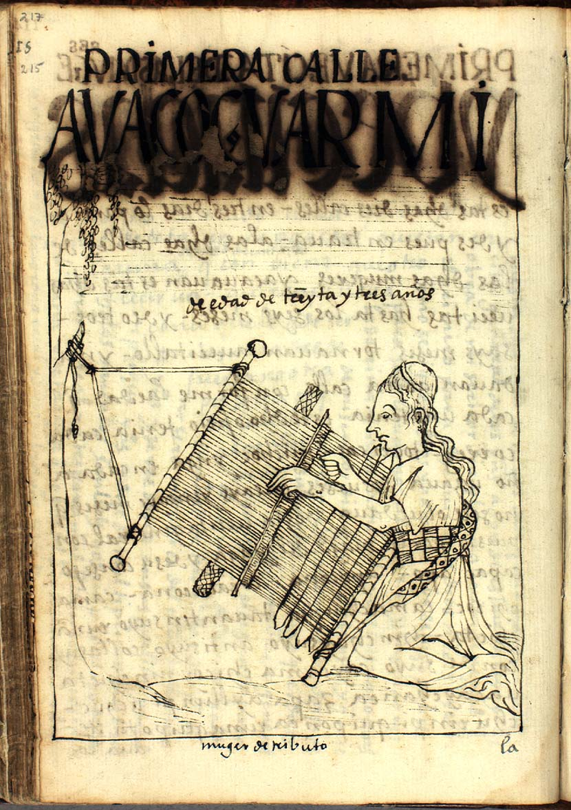 Drawing 80, pp. 215 of the Primer nueva corónica y buen gobierno by Felipe Guamán Poma de Ayala. The first "street" or age group of women, awakuq warmi, weaver of thirty-three years.